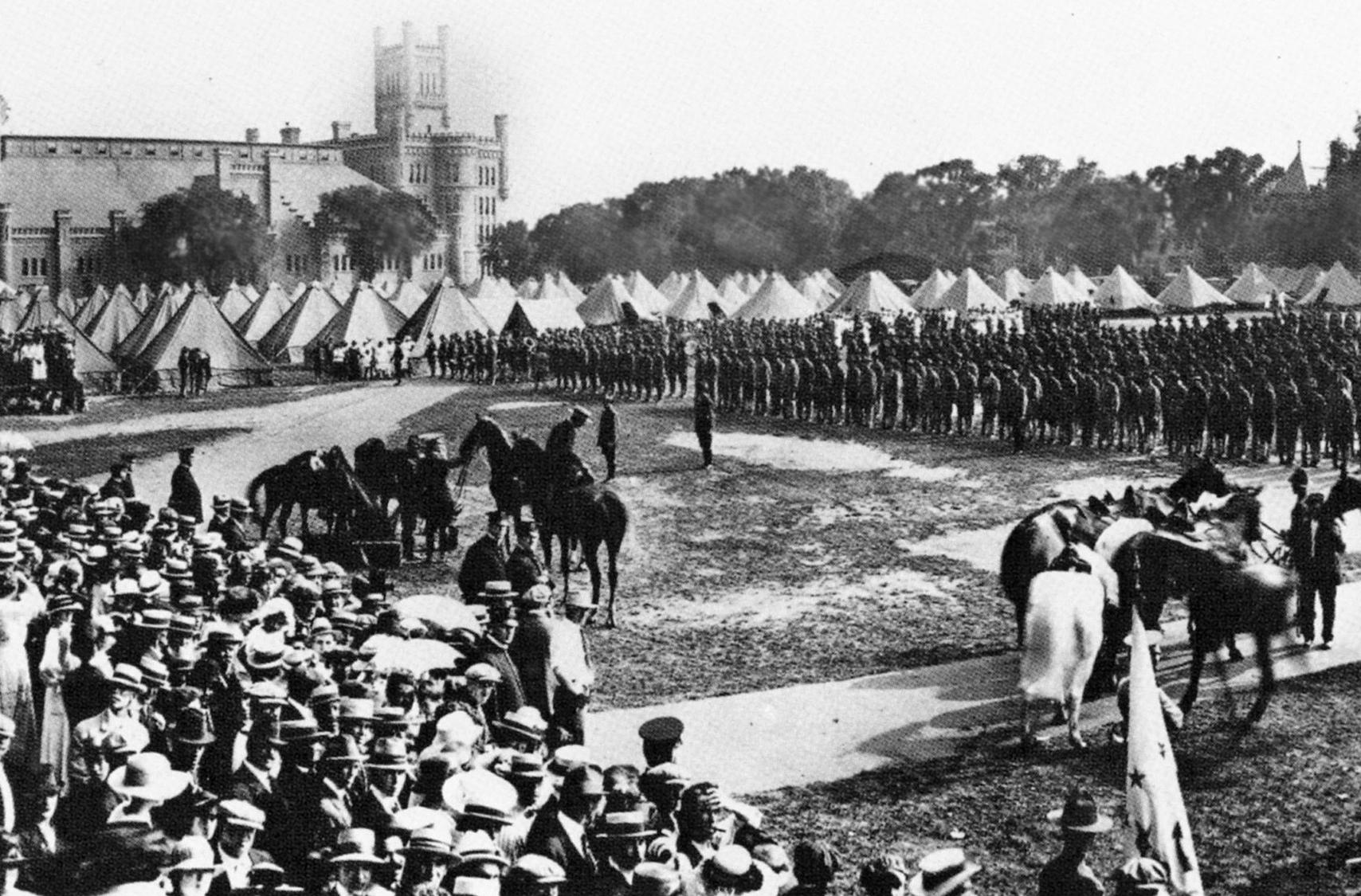 Troops assemble at the Dexter Training Ground in Providence on July 25, 1917, as they prepare to depart for Europe and World War I. (The Providence Journal)